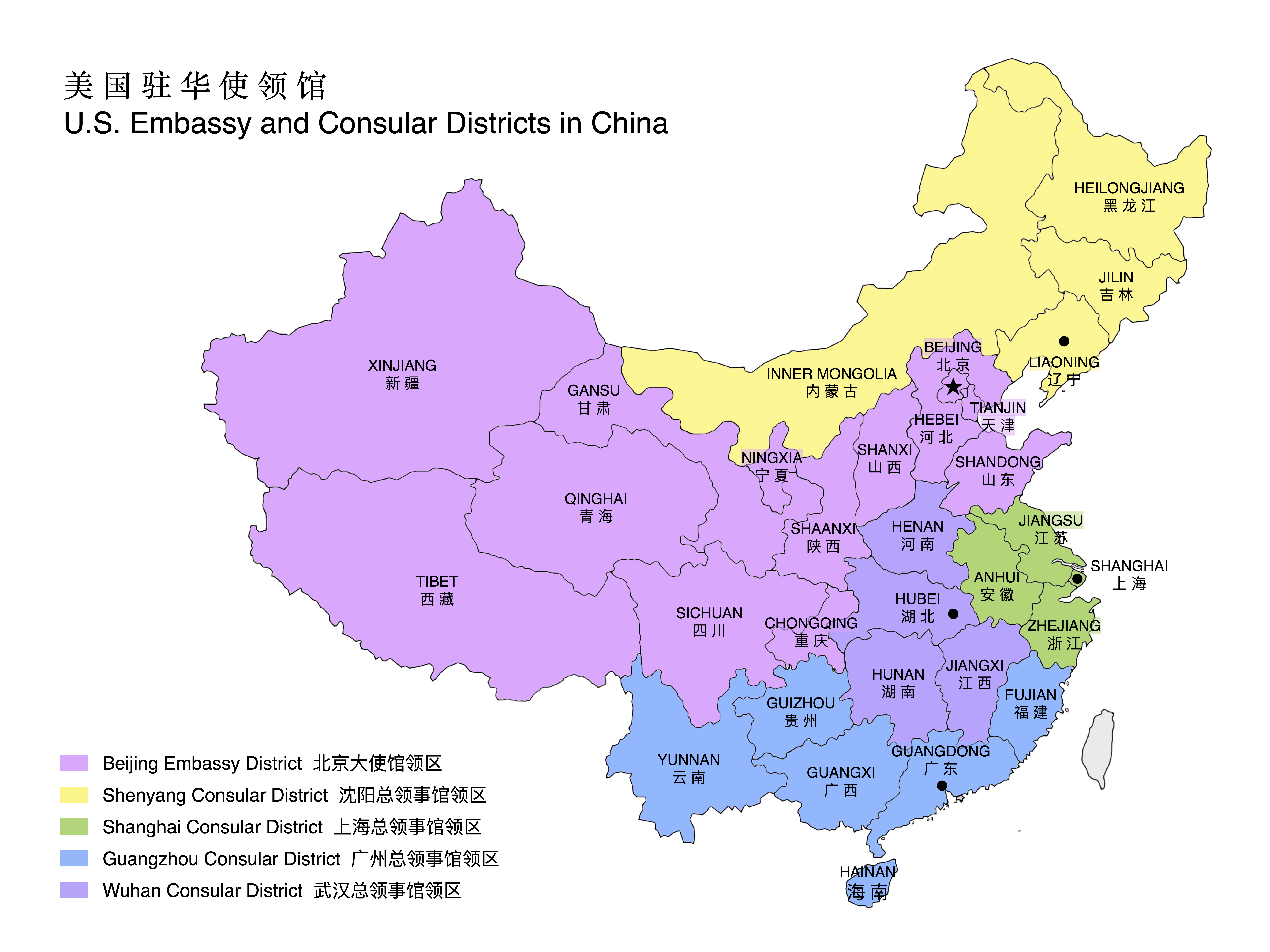 U.S. Embassy and Consular Districts in China